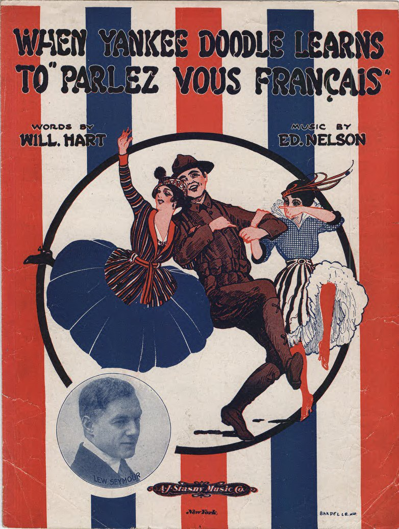 When Yankee Doodle Learns to Parlez Vous Francais sheet music cover